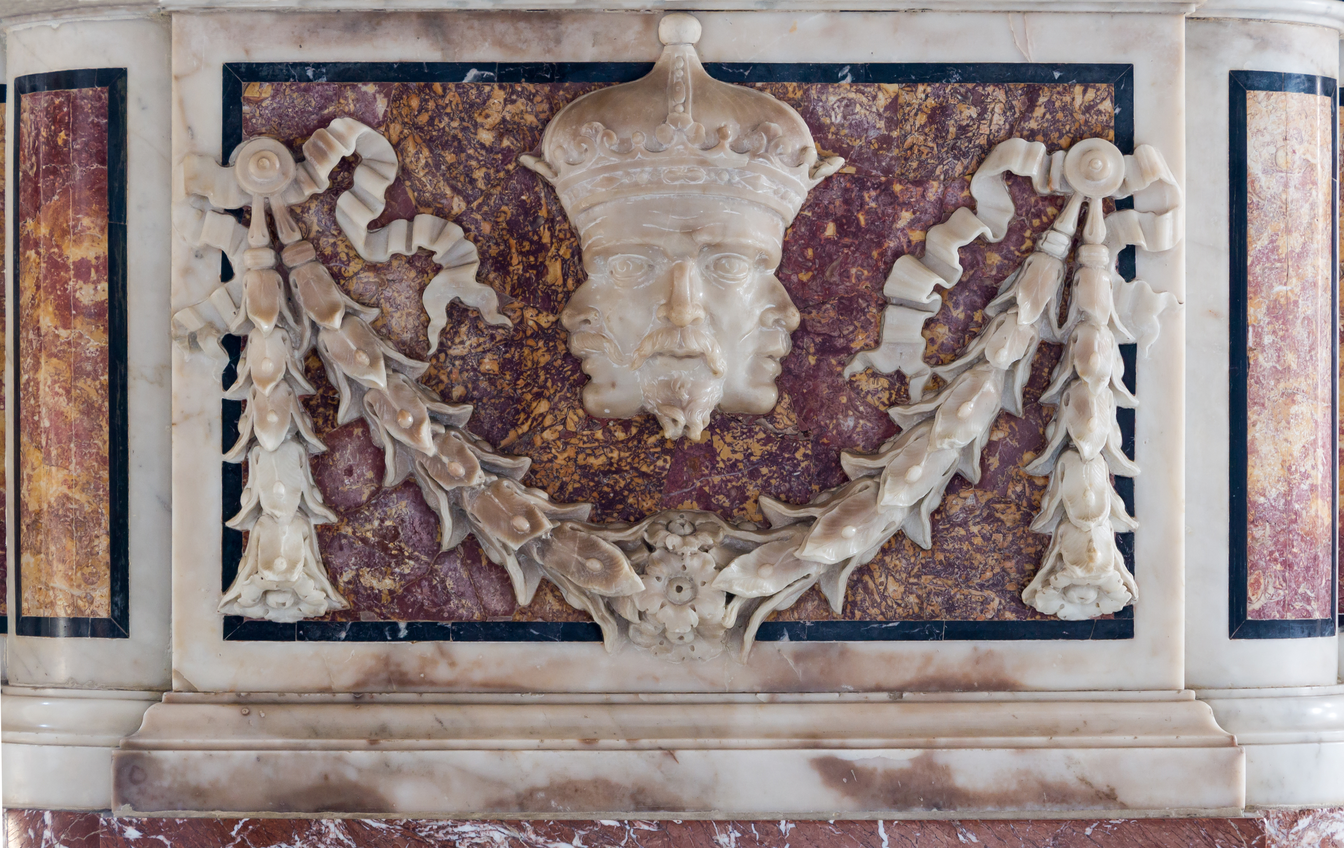 Rare relief of the Holy Trinity, Basilica of Santa Maria del Popolo, Rome, Italy, on the base of the sepulchral monument for the Trivulzio cardinals (1654).